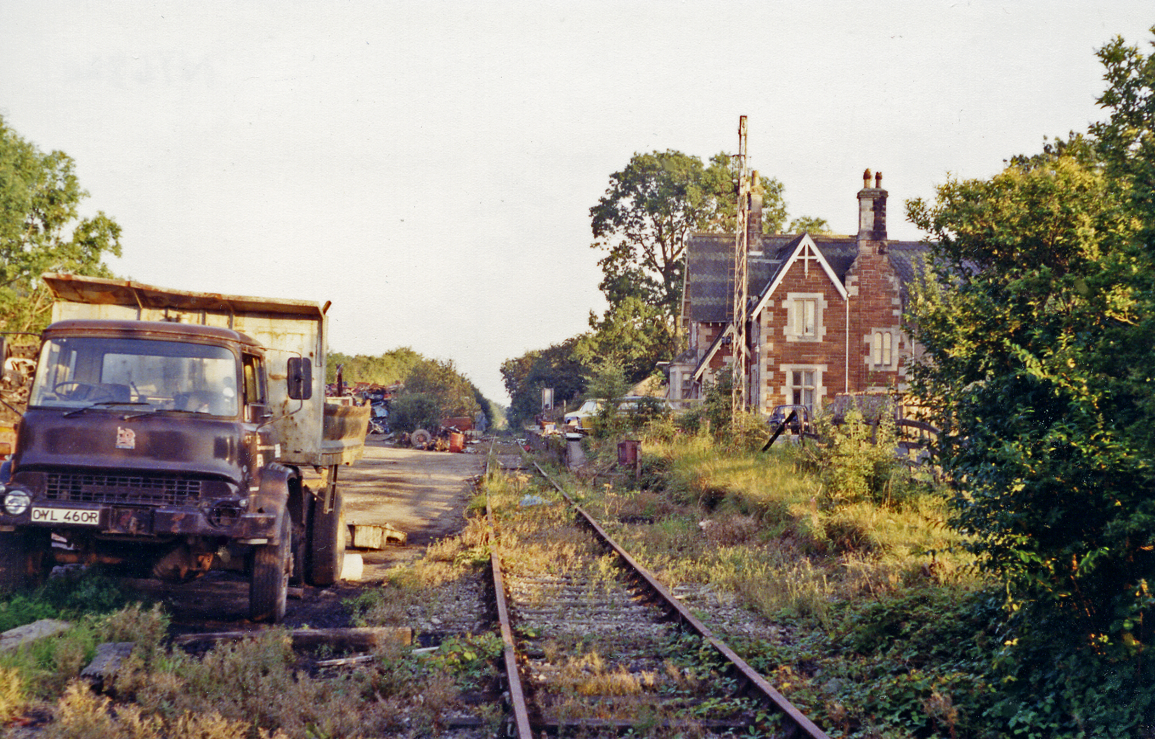 Remains of Appleby (NER) station, 1991. View SE, towards Kirkby Stephen and Darlington: ex-NER Stainmore Line, Darlington - Barnard Castle - Kirkby Stephen - Penrith. This line used to connect here with the Midland's Settle - Carlisle main line but the station (Appleby East from 1/7/50) was closed 22/1/62 when the line over Stainmore was closed, although goods traffic continued to Penrith from here until 2/11/64. The line from Appleby to Warcop was retained for use by the Army until 5/87, then mothballed - as here in 1991, but was acquired by the Eden Valley Railway Society in 1995 and has run trains from Warcop part of the way to Appleby irregularly since 2002.